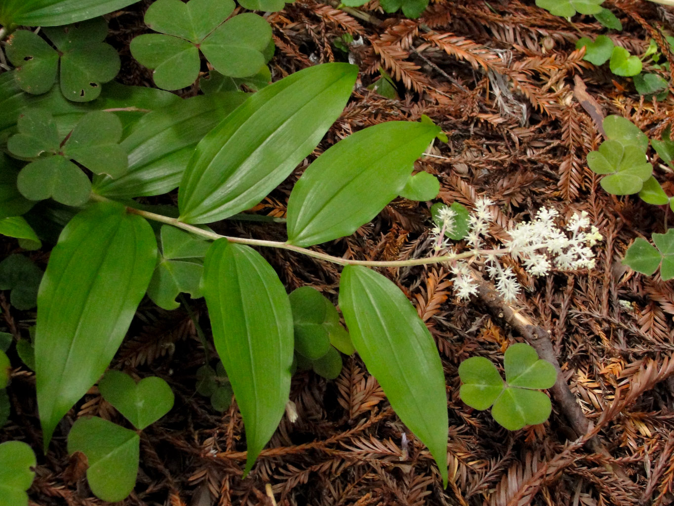 Smilacina racemosa in Prairie Creek Redwoods State Park, California, USA.